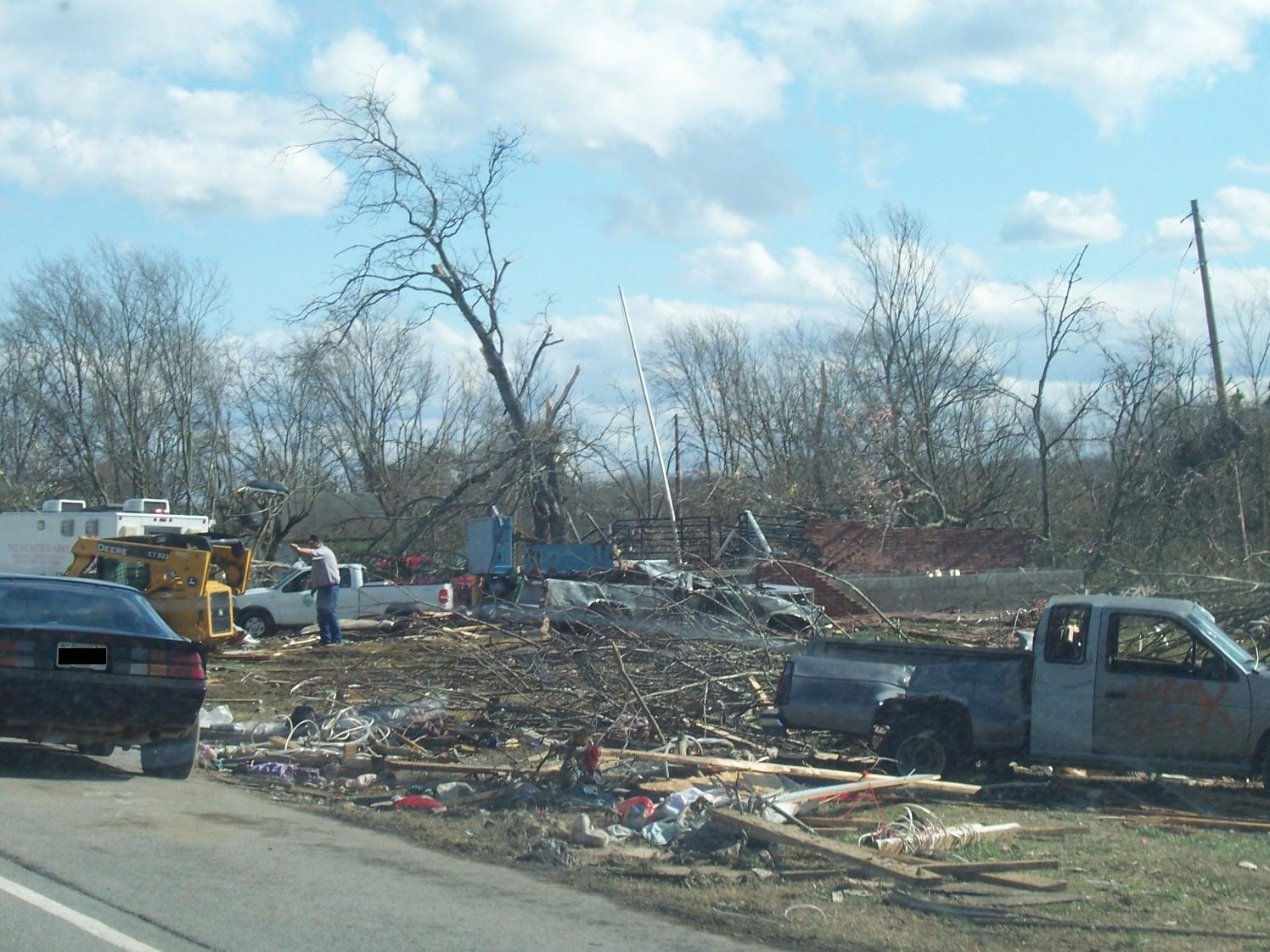 The destroyed post office in Castalian Springs, Tennessee, taken the day after